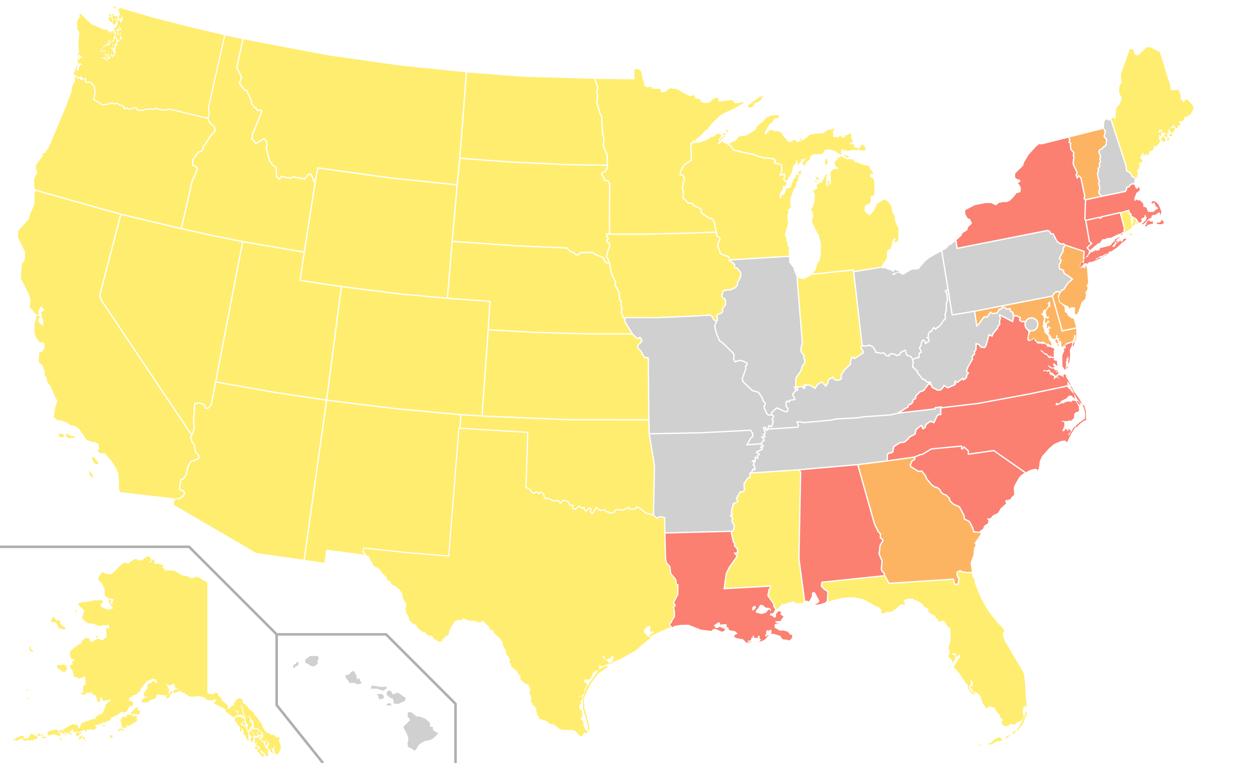 This is a map of the United States color-coded to indicate if a state has federal or state recognized tribes. Yellow =federal-recognized tribes, orange=federal- and state-recognized tribes, red=state-recognized tribes, grey=neither federal- or state-recognized tribes